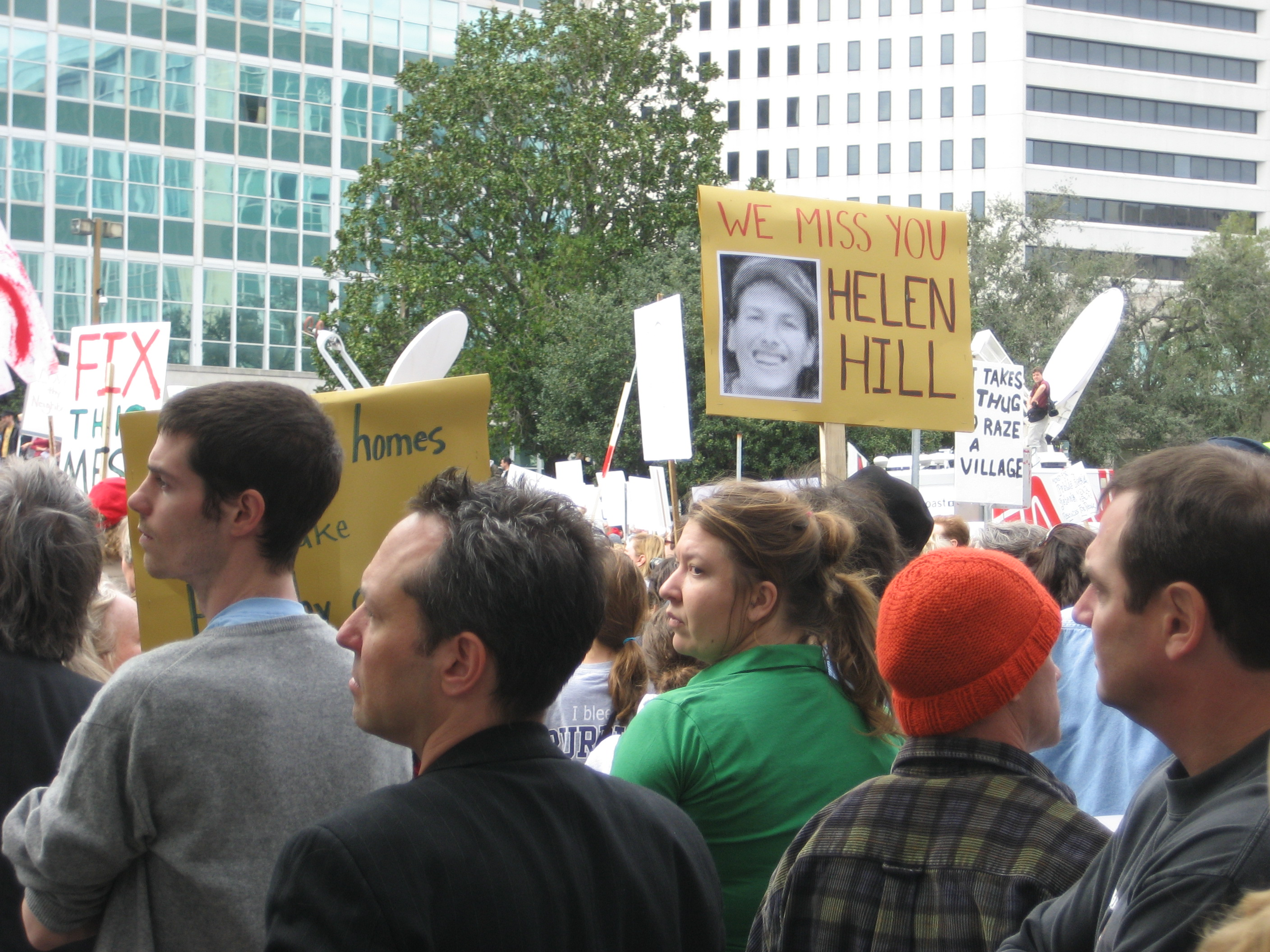 New Orleans march against violent crime in responce to multiple recent murders. Protesters in front of City Hall. Sign in memory of murdered filmaker/activist Helen Hill visible.